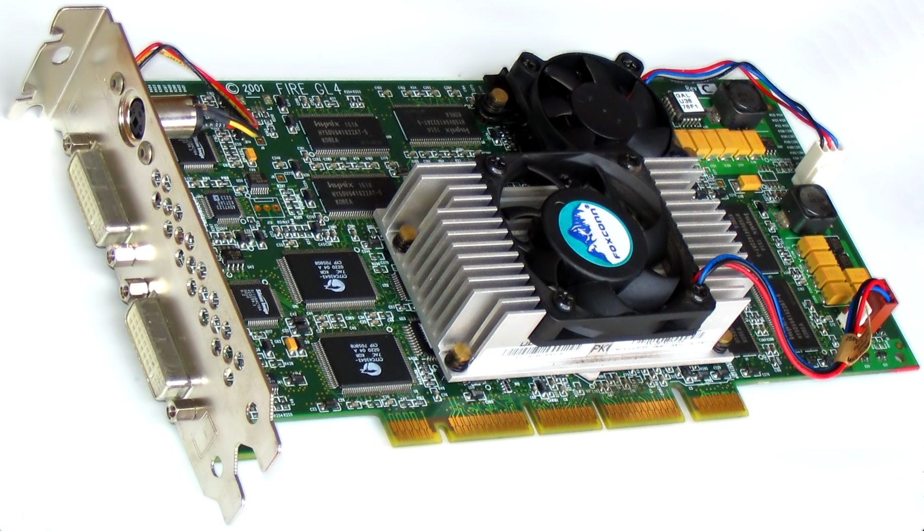 ATI FireGL Graphical card